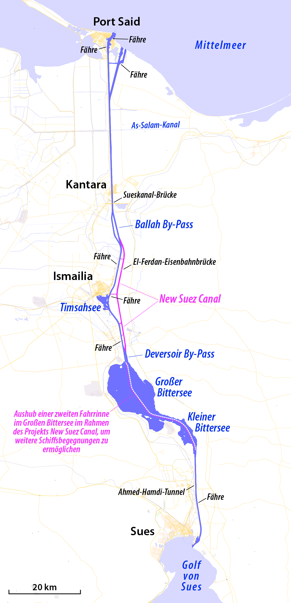 Map of the Suez Canal